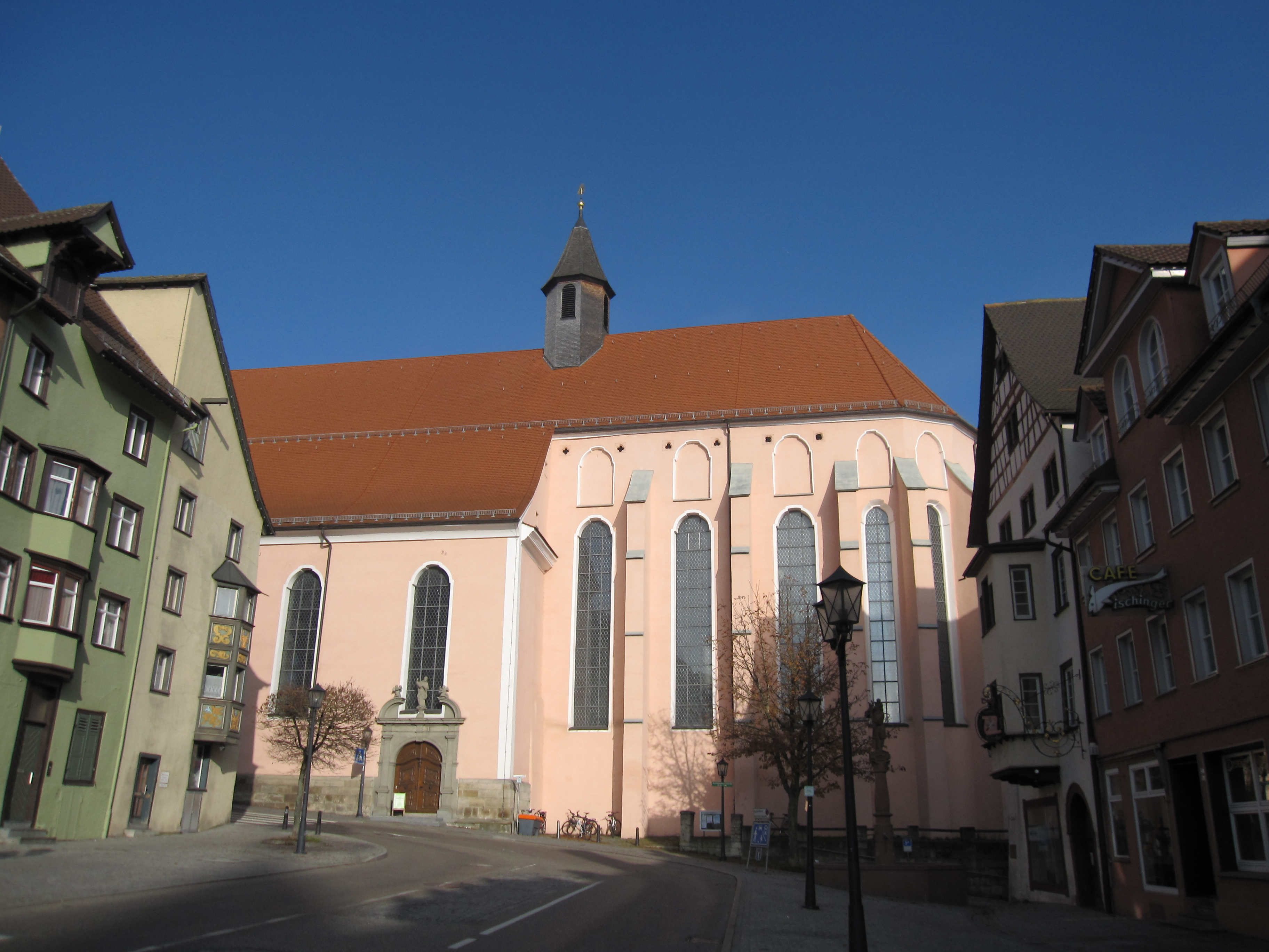 Dominican Church, Rottweil